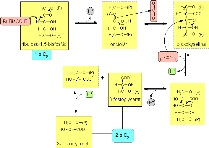 Calvin cycle - carboxylation (CO2 fixation)